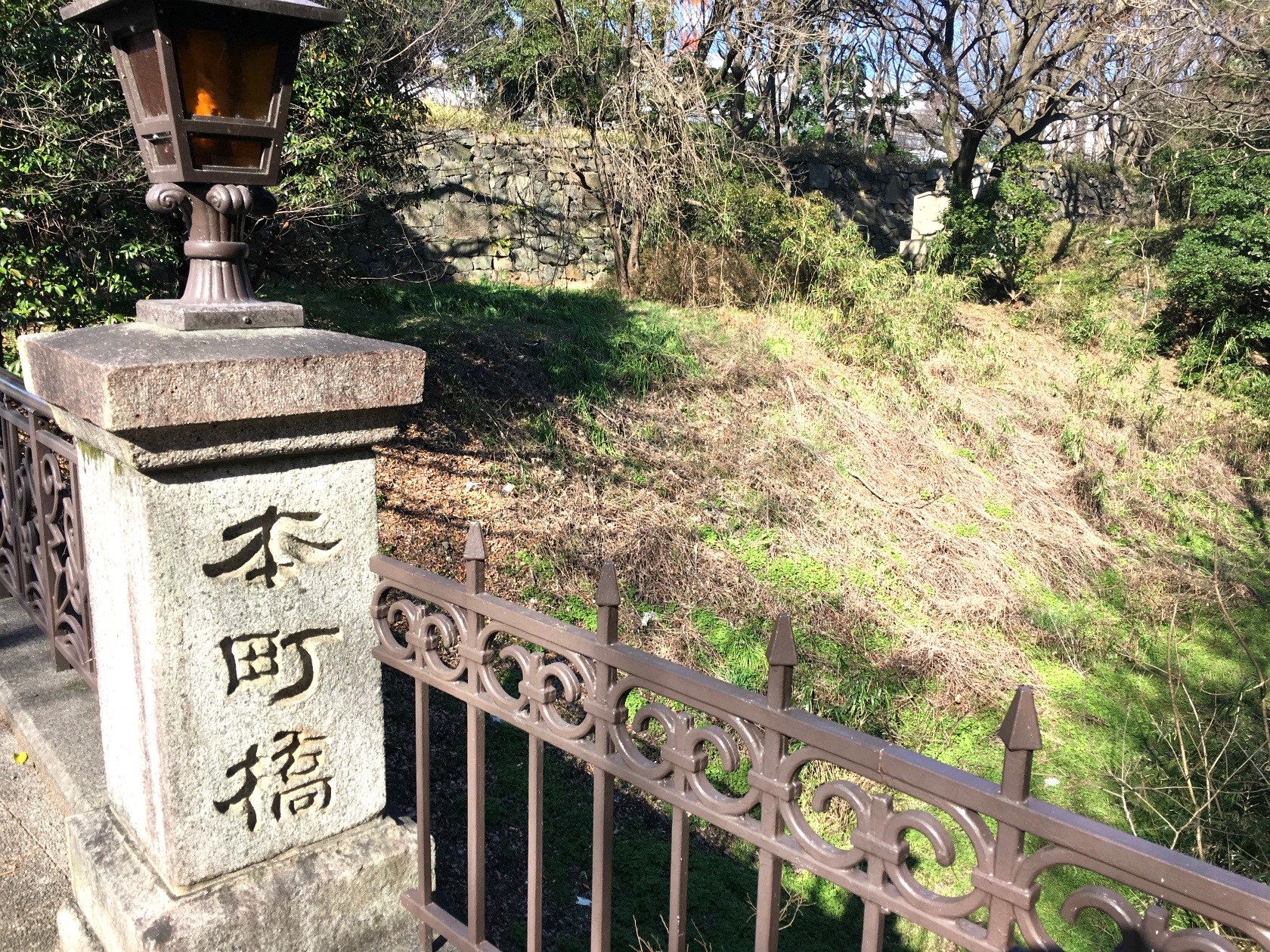 the site of Hommachi station (Meitetsu Seto Line)